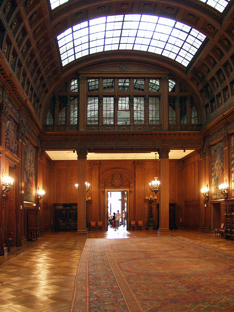 First floor of Villa Hügel, the old home of the Krupp-family in Essen, Germany